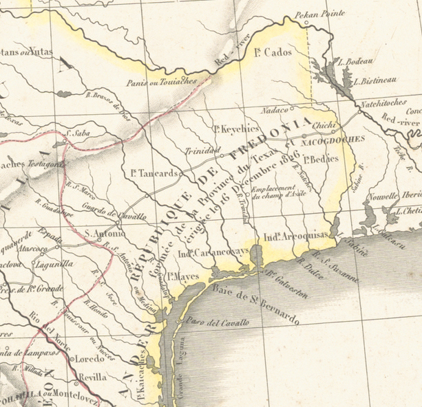 Interestingly, the short-lived Fredonian Rebellion of 1826-1827 – a precursor to the Texas War of Independence – had a longer life in popular culture than in reality, in part thanks to outdated European maps depicting the U.S.-Mexico borderlands. This 1835 map by Dufour bears the following notation in